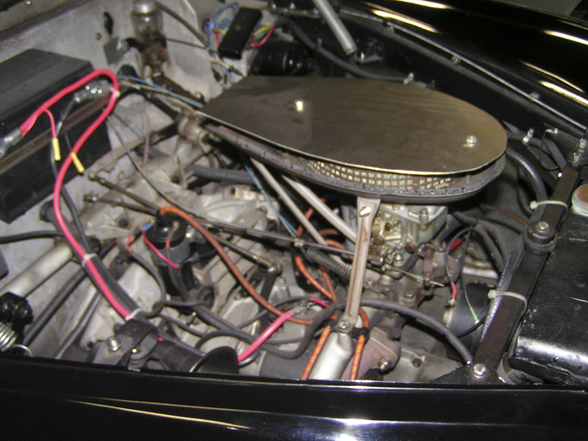 This car was the only one of this model exported to North America for the Mack Corporation of New York. The museum owner found it in Colorado under a fallen tree in very poor shape but low mileage. Aluminum body, front wheel drive - very advanced for its day and still quite modern today. Very expensive to manufacture so production was very low.